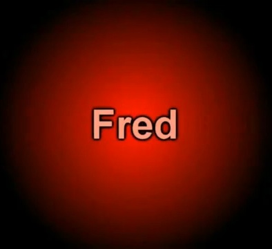 Title card 2:58 into episode 3.18 "Fred Gets a Letter From His Dad", of the "Fred" series. Any copyrightable material from this series was said to be held by Fee Entertainment on release day.